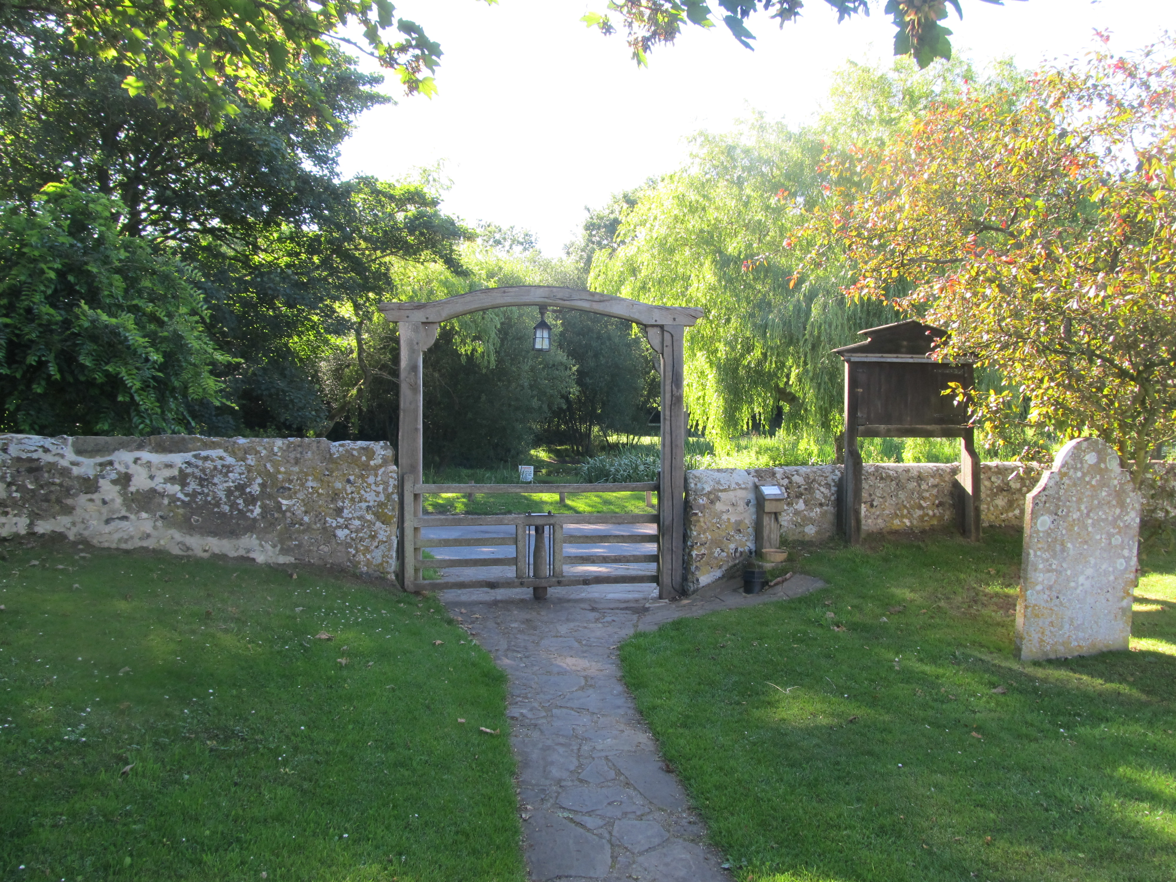 Tapsel gate at St Mary the Virgin church, Friston, East Sussex, England